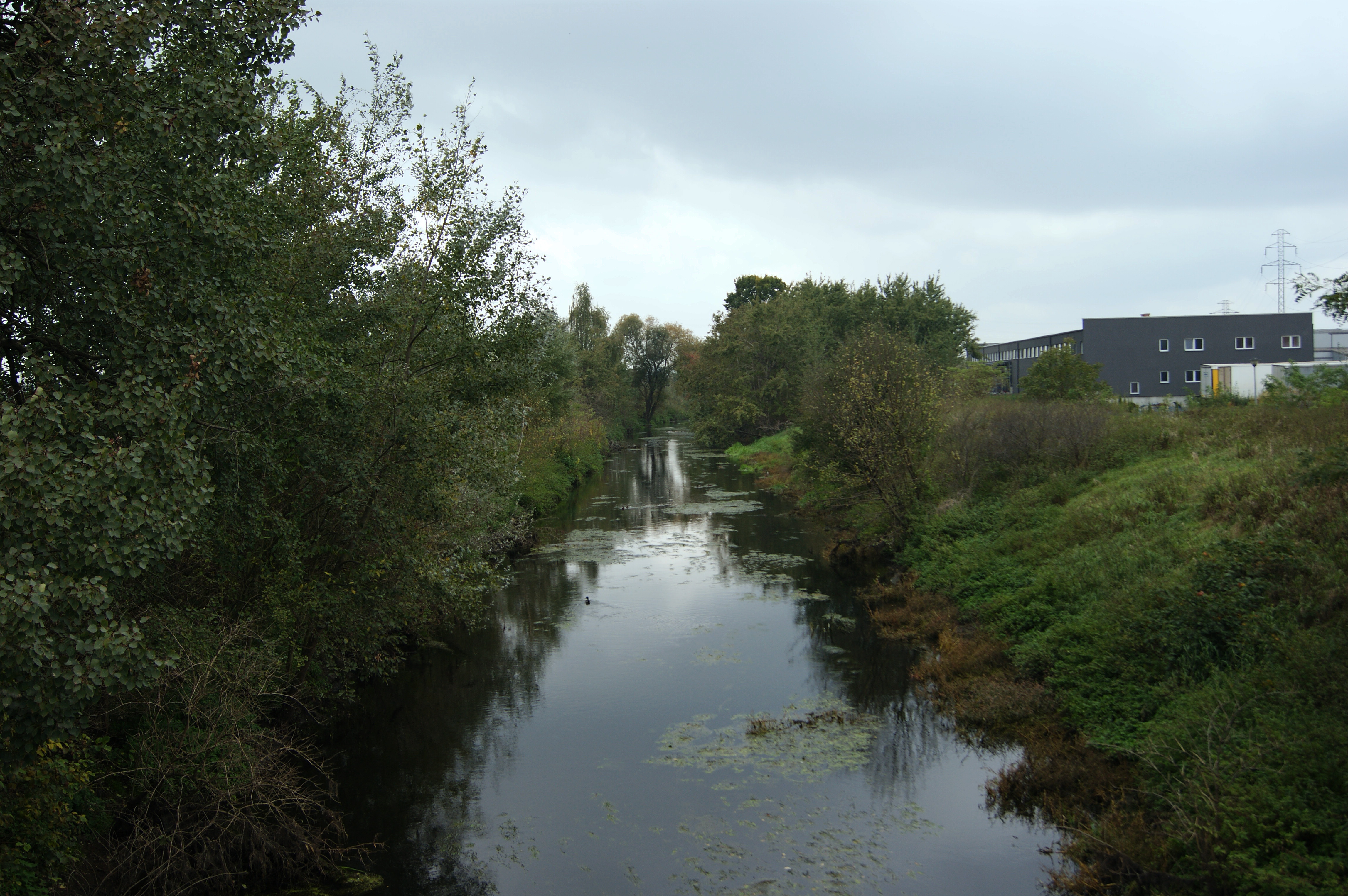 Drwina Dluga (Drwien) river, Rybitwy, Krakow, Poland